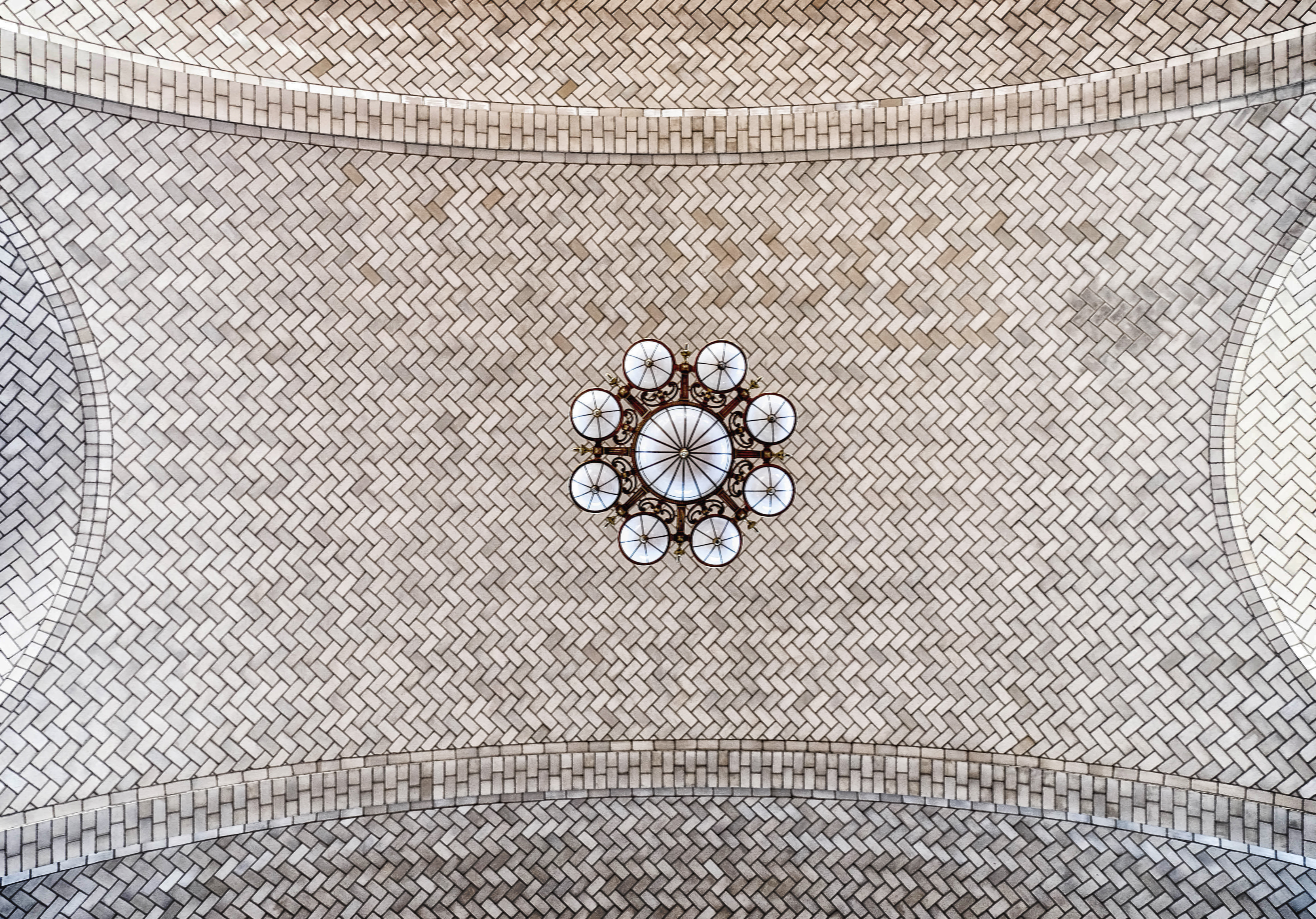 This photo was taken during the Empty Ellis tour I won a spot to be part of from the OHNY Weekend raffle. OHNY honorable mention for details. Site: Ellis Island